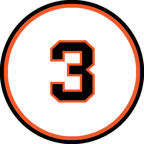 SF Giants retired number placard as shown inside stadium